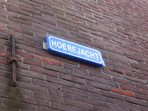 Picture of the streetnameplate hoerejacht